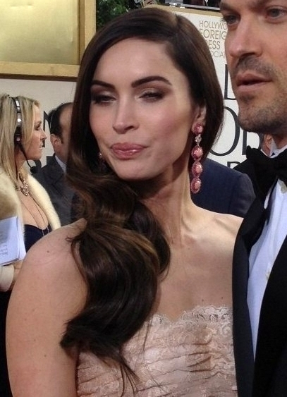 Megan Fox at the Golden Globes 2013.